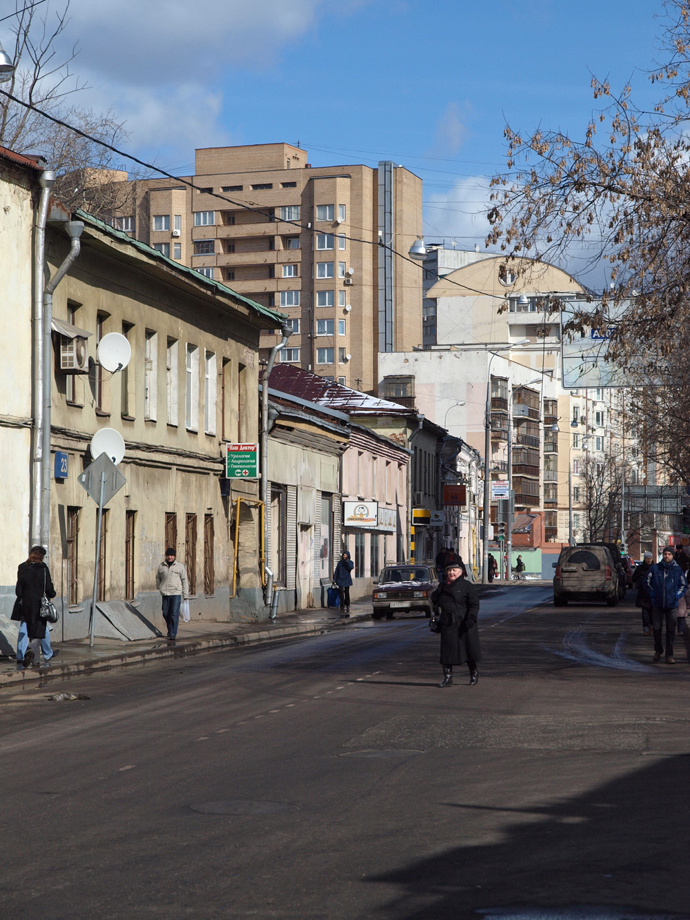 Former trade rows of the former German Market, Moscow.